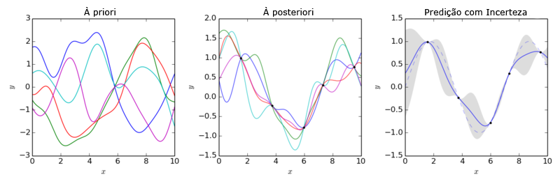 Gaussian Process Regression (prediction) with a squared exponential kernel. Left are draws from the prior distribution of functions. Middle are draws from the posterior predictive distribution. Right is the mean prediction with 1 standard deviation shaded.